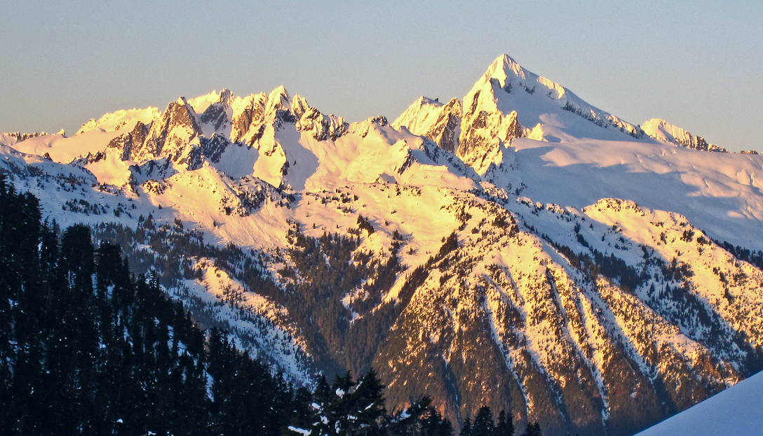 The Triad and Eldorado Peak in winter seen from the south near Snowking Mountain